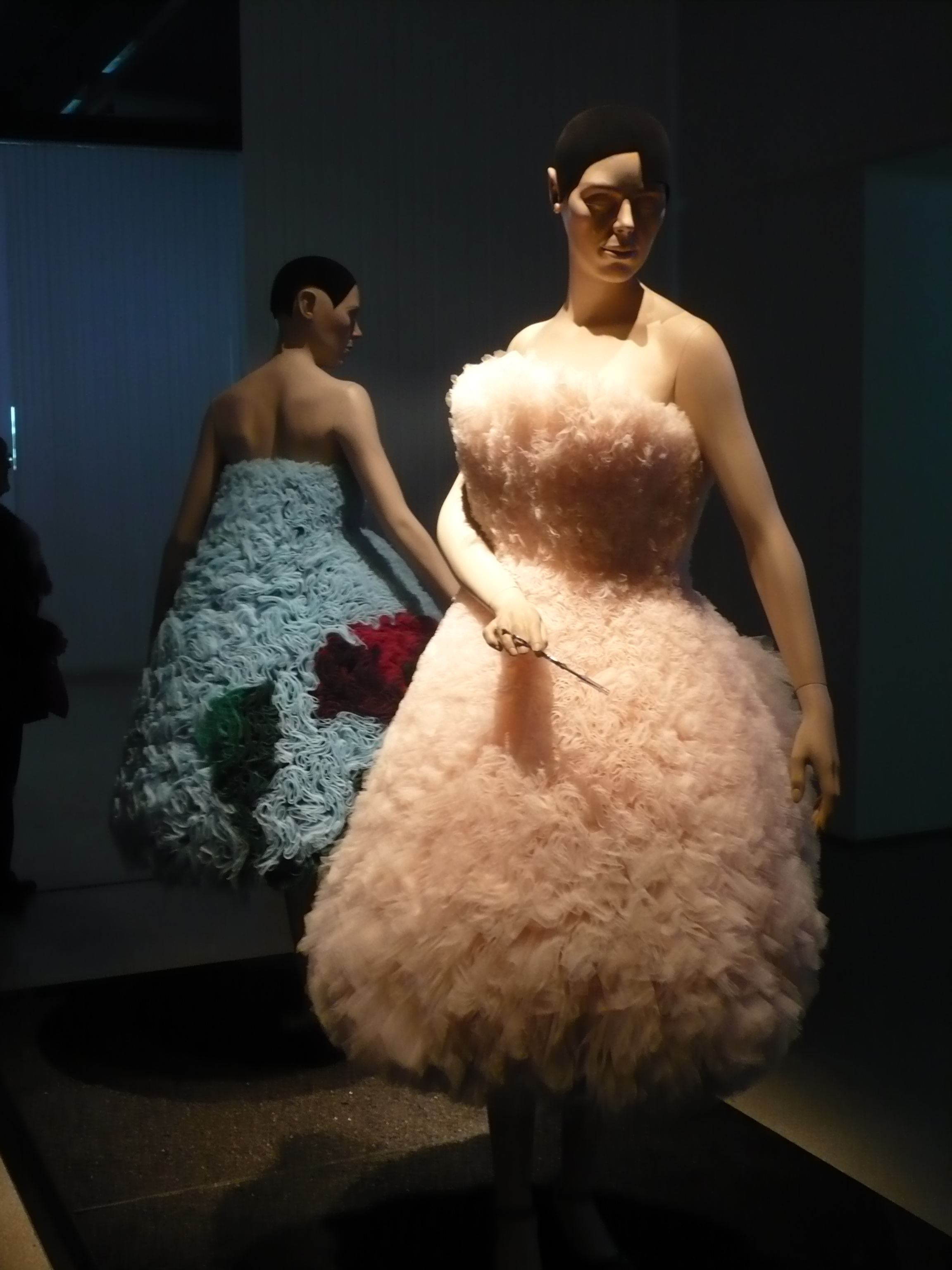 Design Museum London, Exhibition 2009, Hussein Chalayan